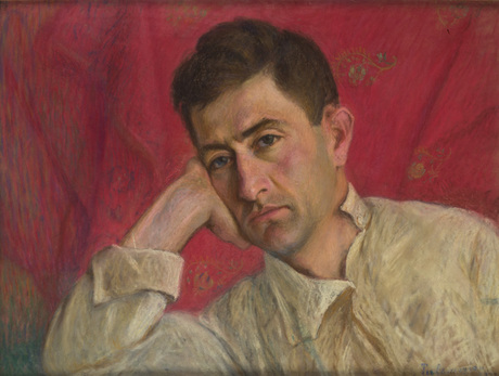 Axel Bakunts's portrait by Terlemezian